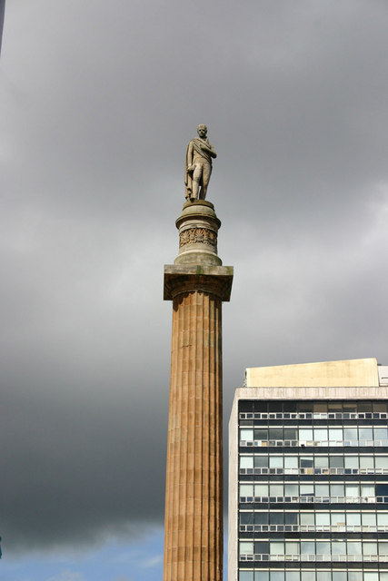 Statue of Sir Walter Scott